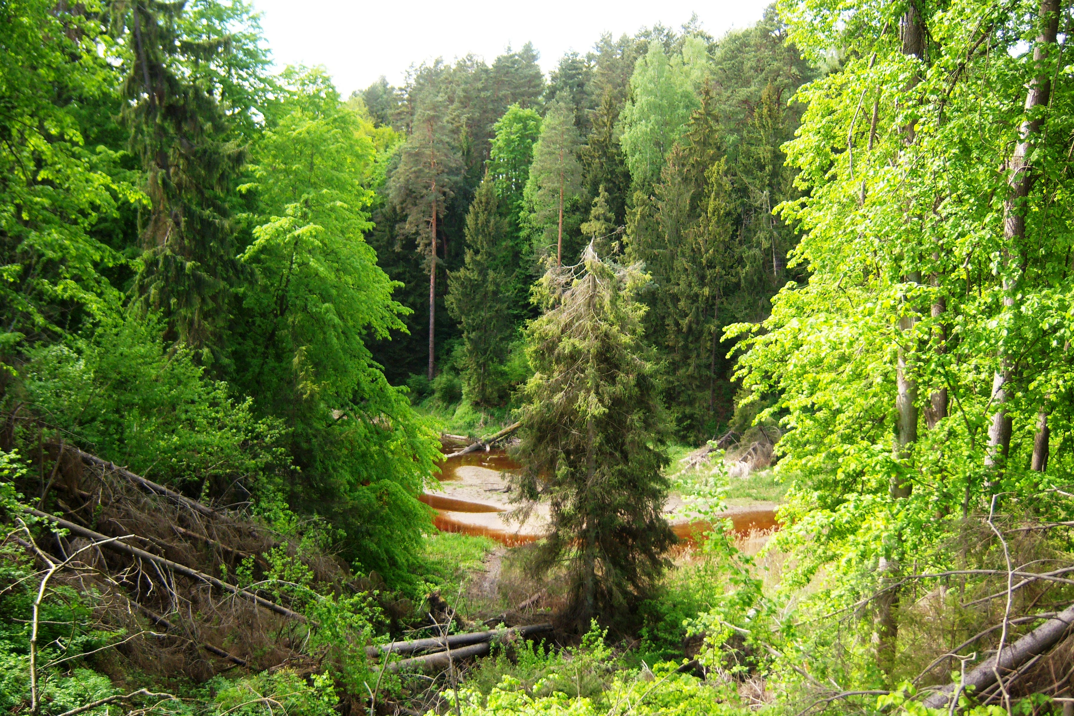 Karčiupis River by Kaunas Reservoir, Kaišiadorys District, Lithuania